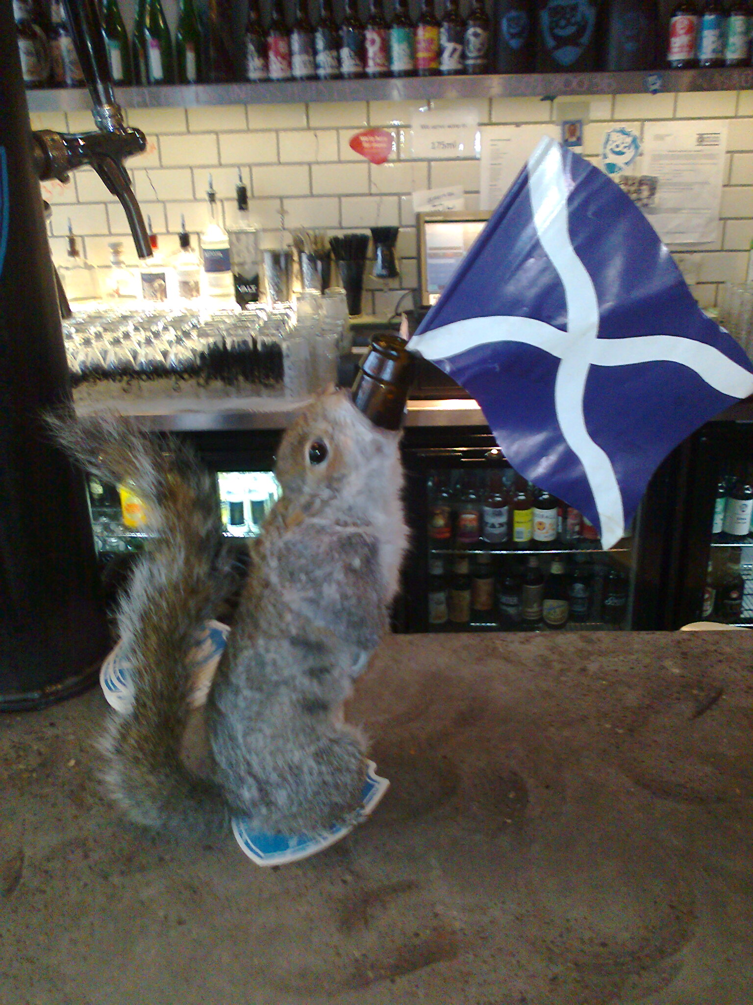 The End of History squirrel at BrewDog Camden, London.